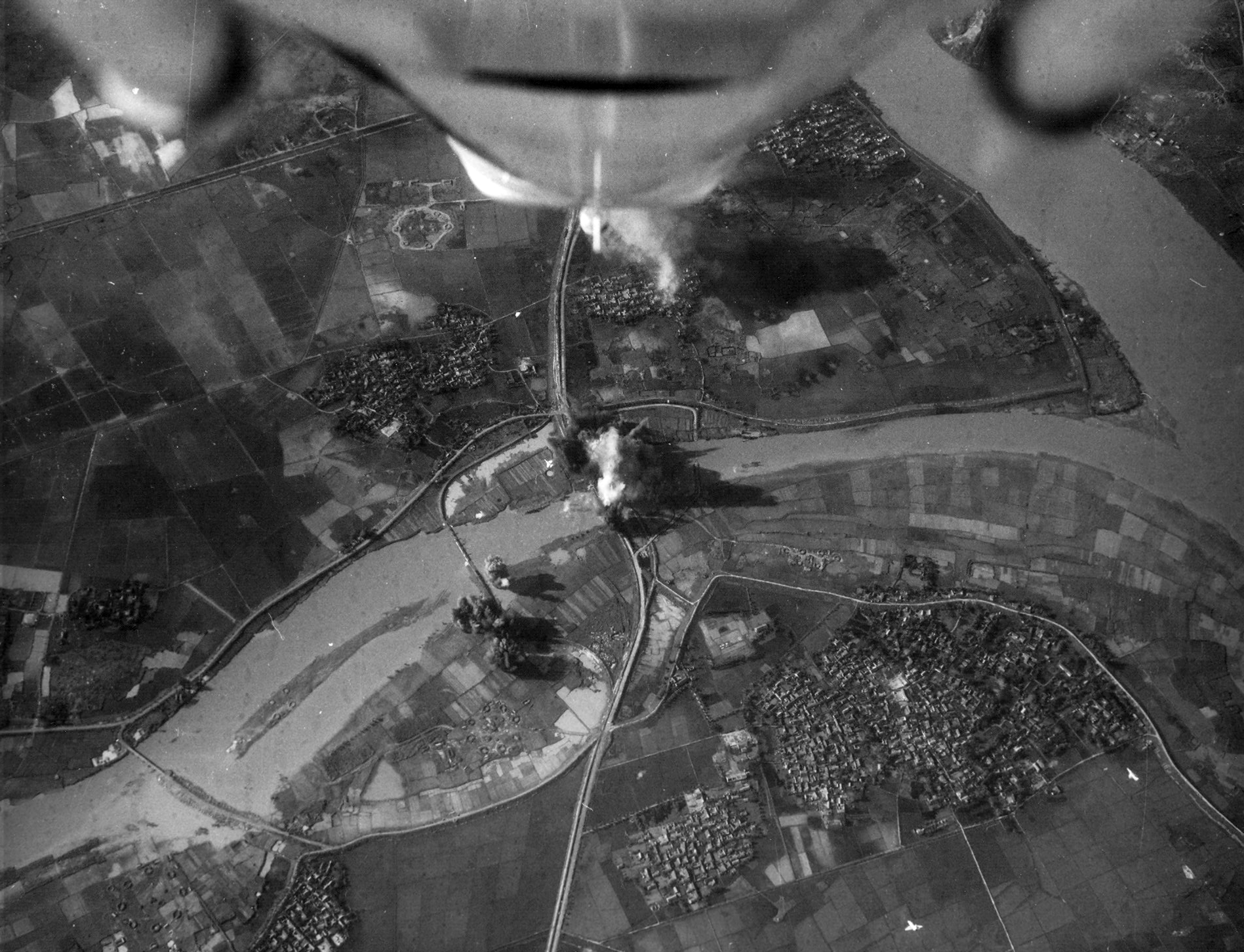 U.S. Navy Douglas A-4E Skyhawks from Attack Squadrons VA-163 Saints and VA-164 Ghost Riders attcking the the Phuong Dinh railroad bypass bridge, 10 km north of Thanh Hoe, North Vietnam, on 10 September 1967. Both squadrons were assigned to Carrier Air Wing 16 (CVW-16) aboard the aircraft carrier USS Oriskany (CVA-34) for a deployment to Vietnam from 16 June 1967 to 31 January 1968. Note the two attacking Skyhawks in the lower right and one directly above the explosions on the bridge.